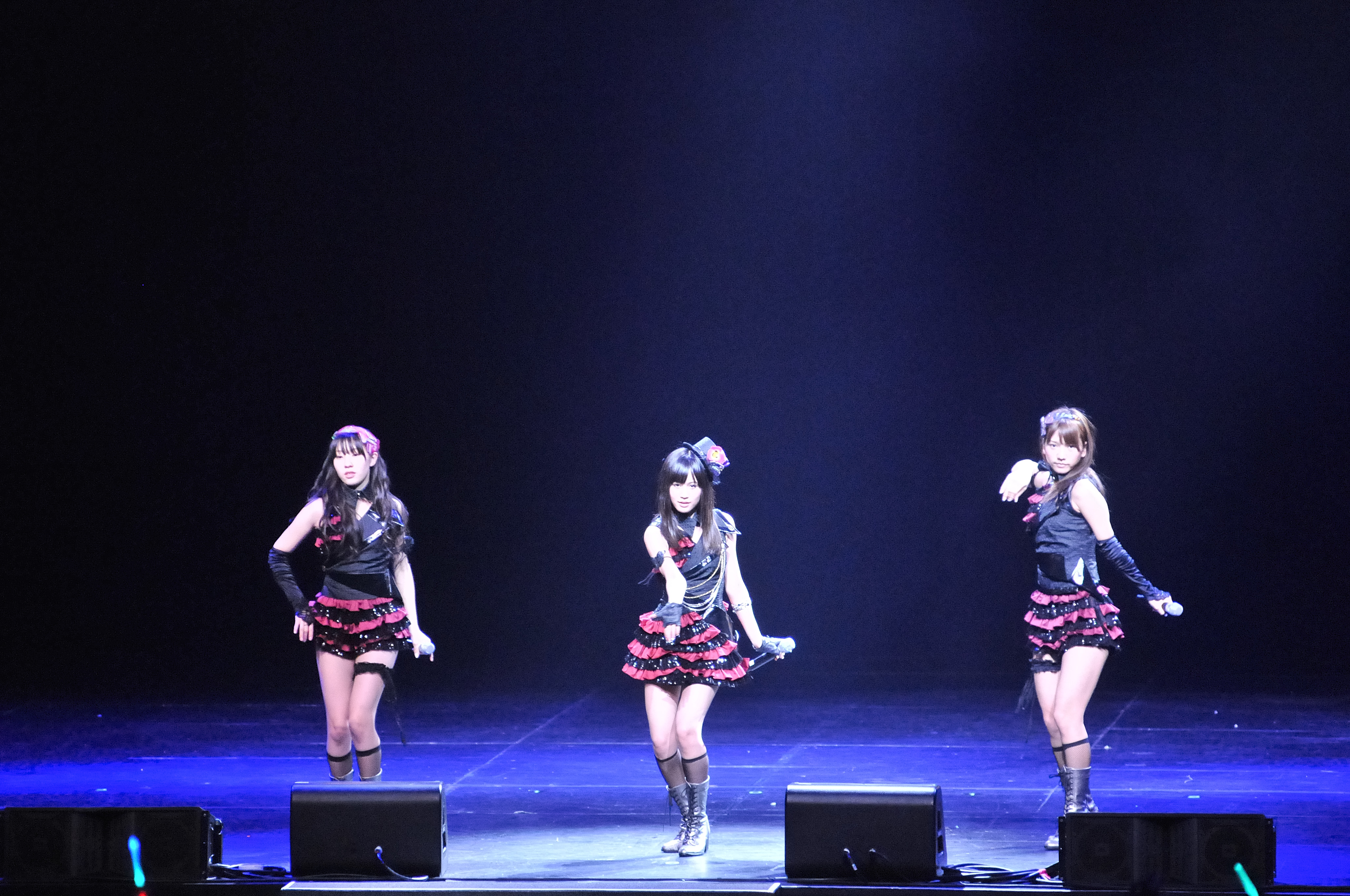 J!-ENT LIVE akb48